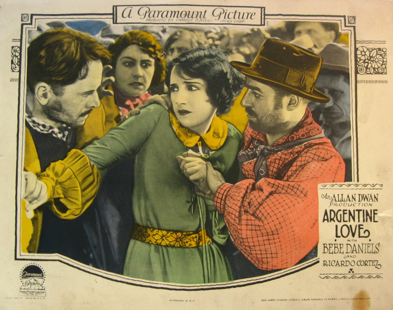 Lobby card for the American film Argentine Love (1924).